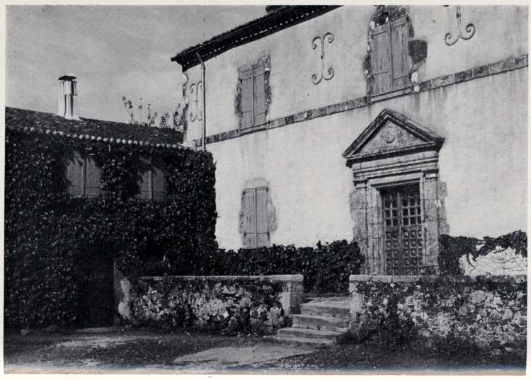 L'ancien presbytère du Petit-Luc /